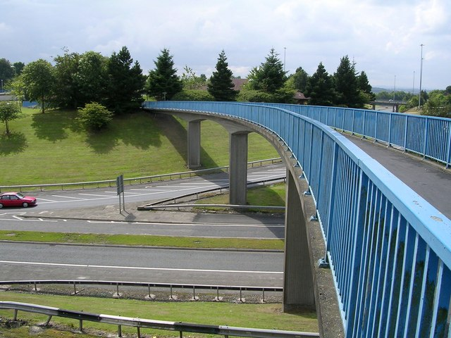 Blue Bridge, Cumbernauld. Just one of dozens of blue pedestrian bridges linking up the warren of footpaths around Cumbernauld. This one flies over the B8039.